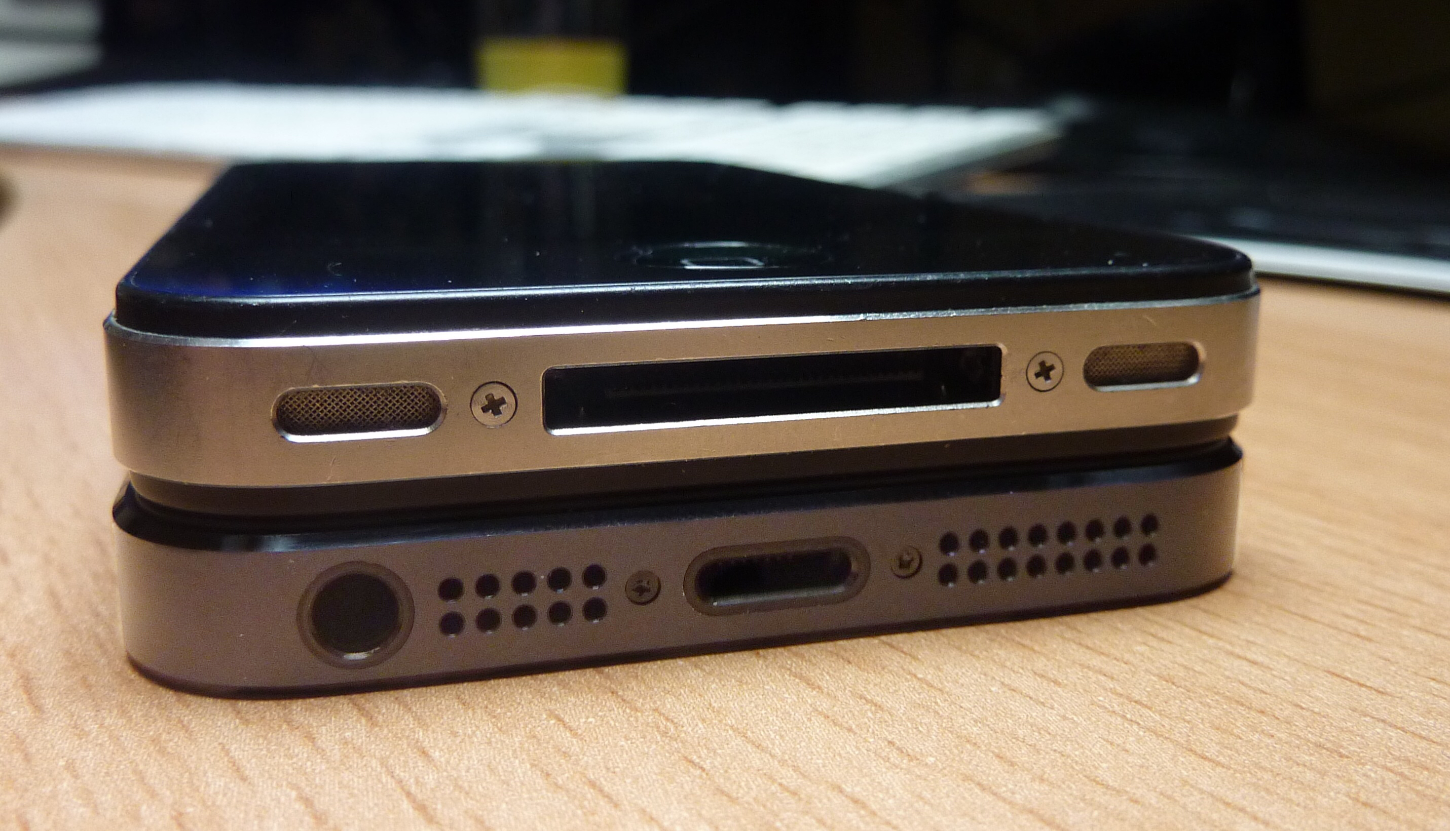 Image of iPhone 4S' 30pin dock connector (top) and iPhone 5's lightning dock connector (bottom)